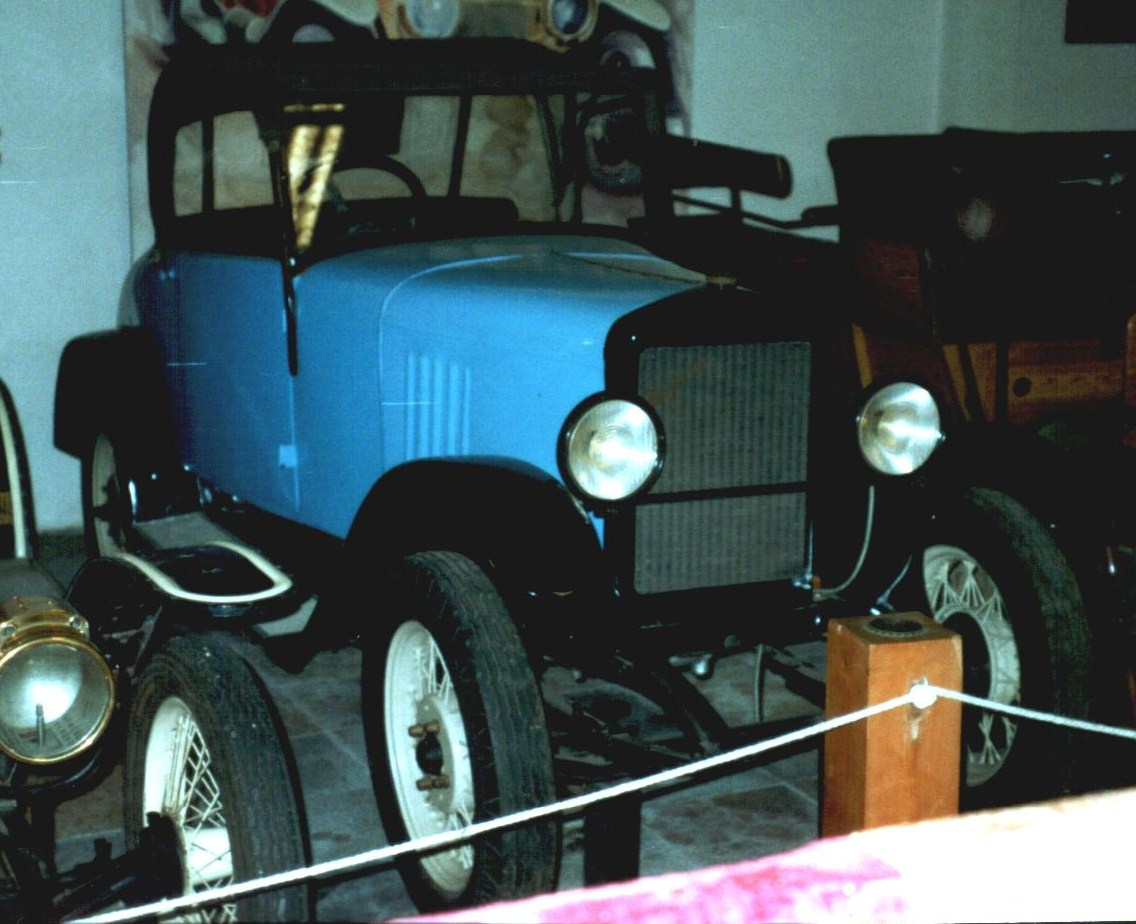 Hisparco 1924 (Country of origin: Spain)